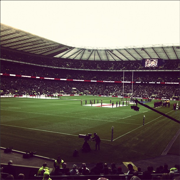 Twickenham Rugby Pitch - England vs Australia